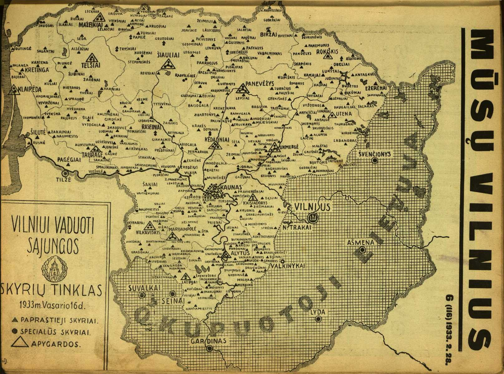 Cover page of Mūsų Vilnius (volume 6, issue 116) with a map of local chapters of the Union for the Liberation of Vilnius